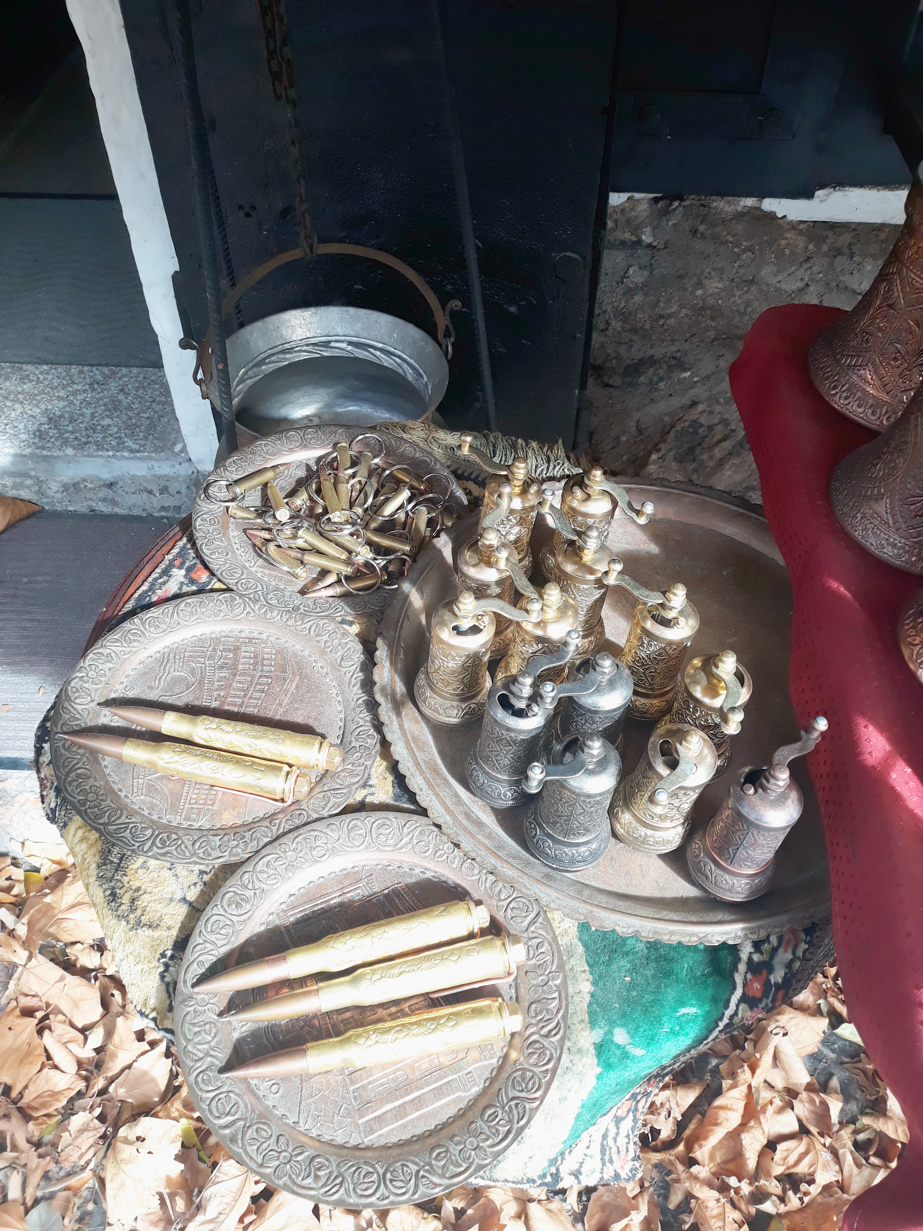 Street Kazandziluk in Sarajevo